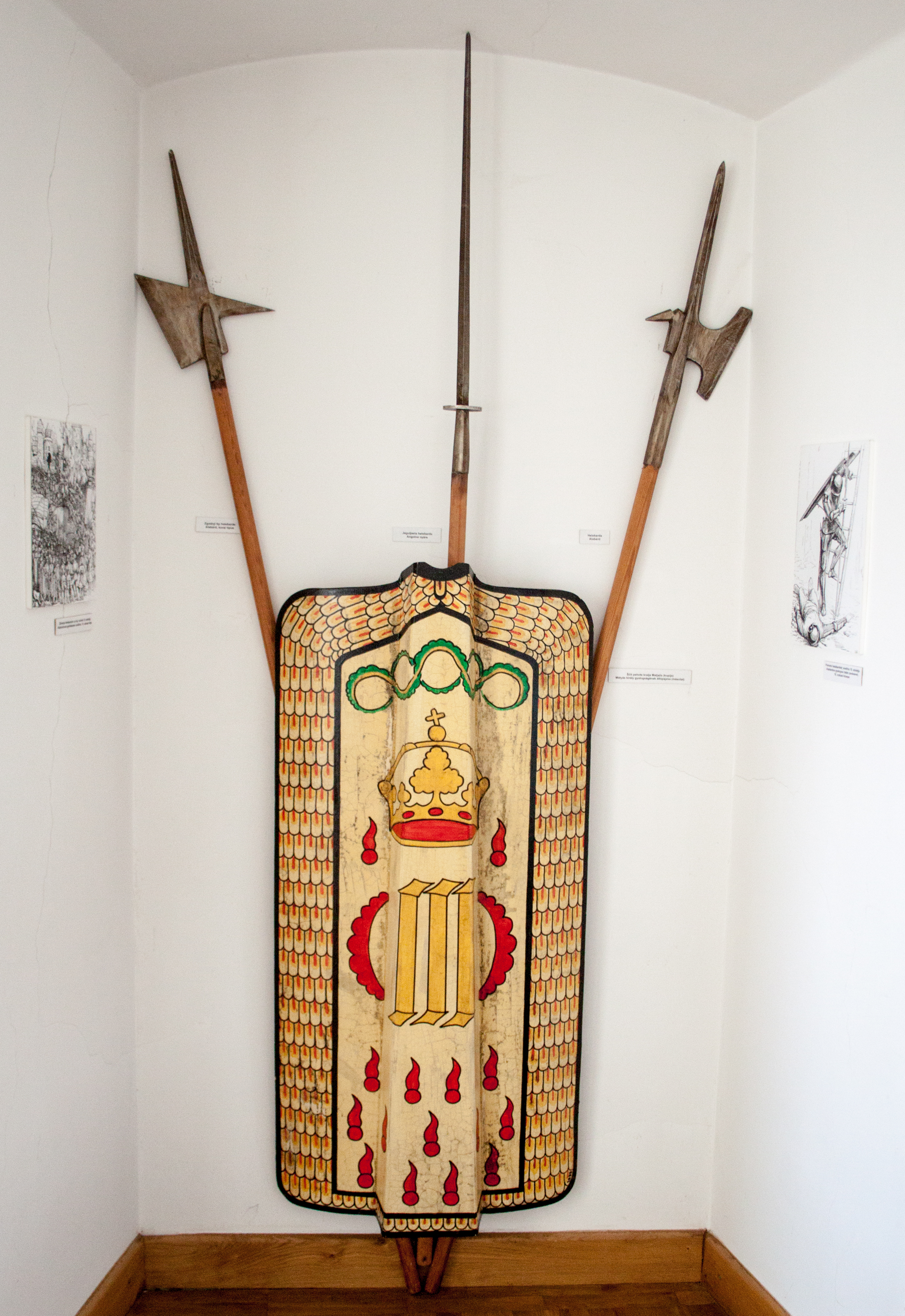 Pavise and halberds of Black Army infantry in the exhibition area in the Lendava Museum